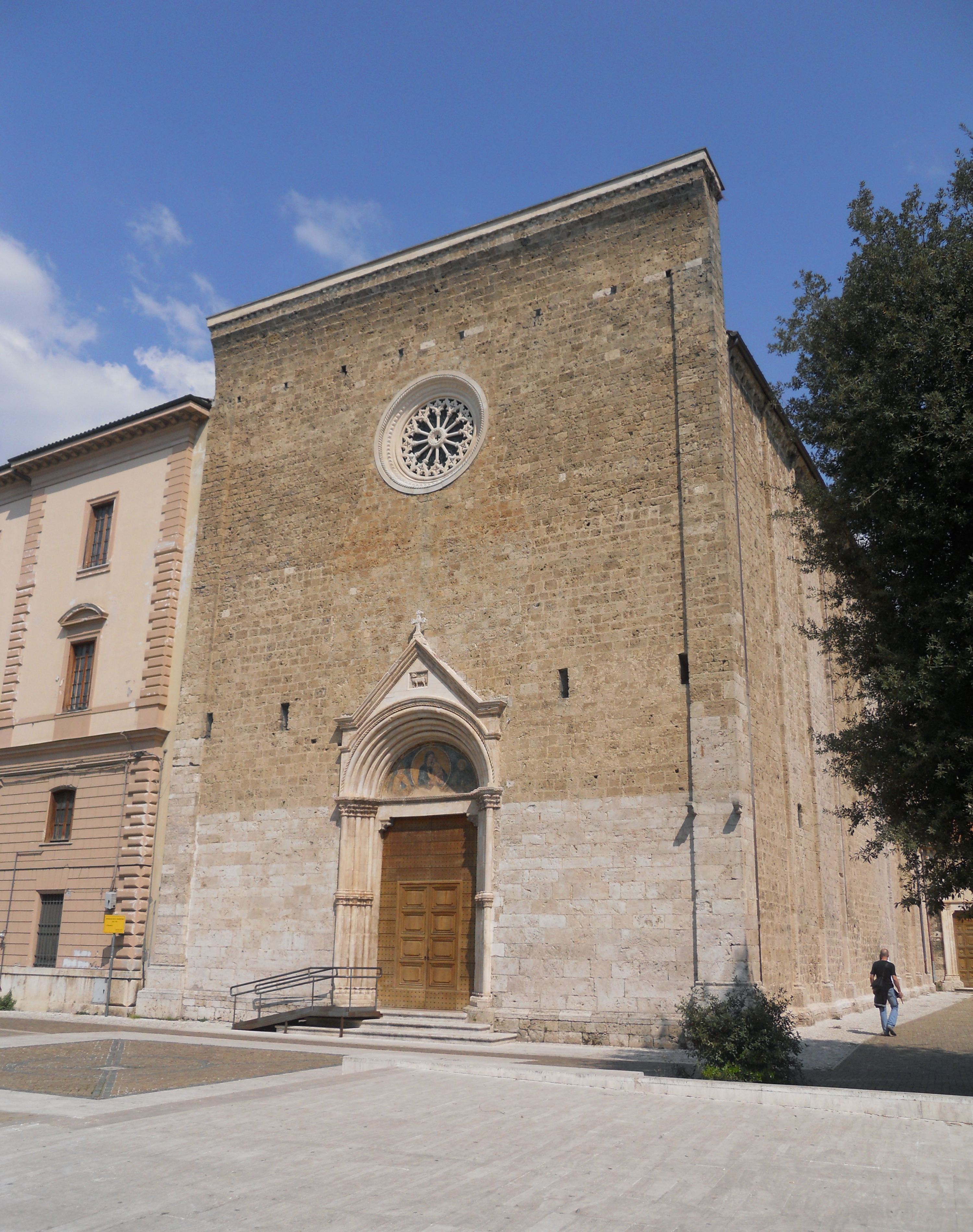 St. Augustine church - Rieti, Italy